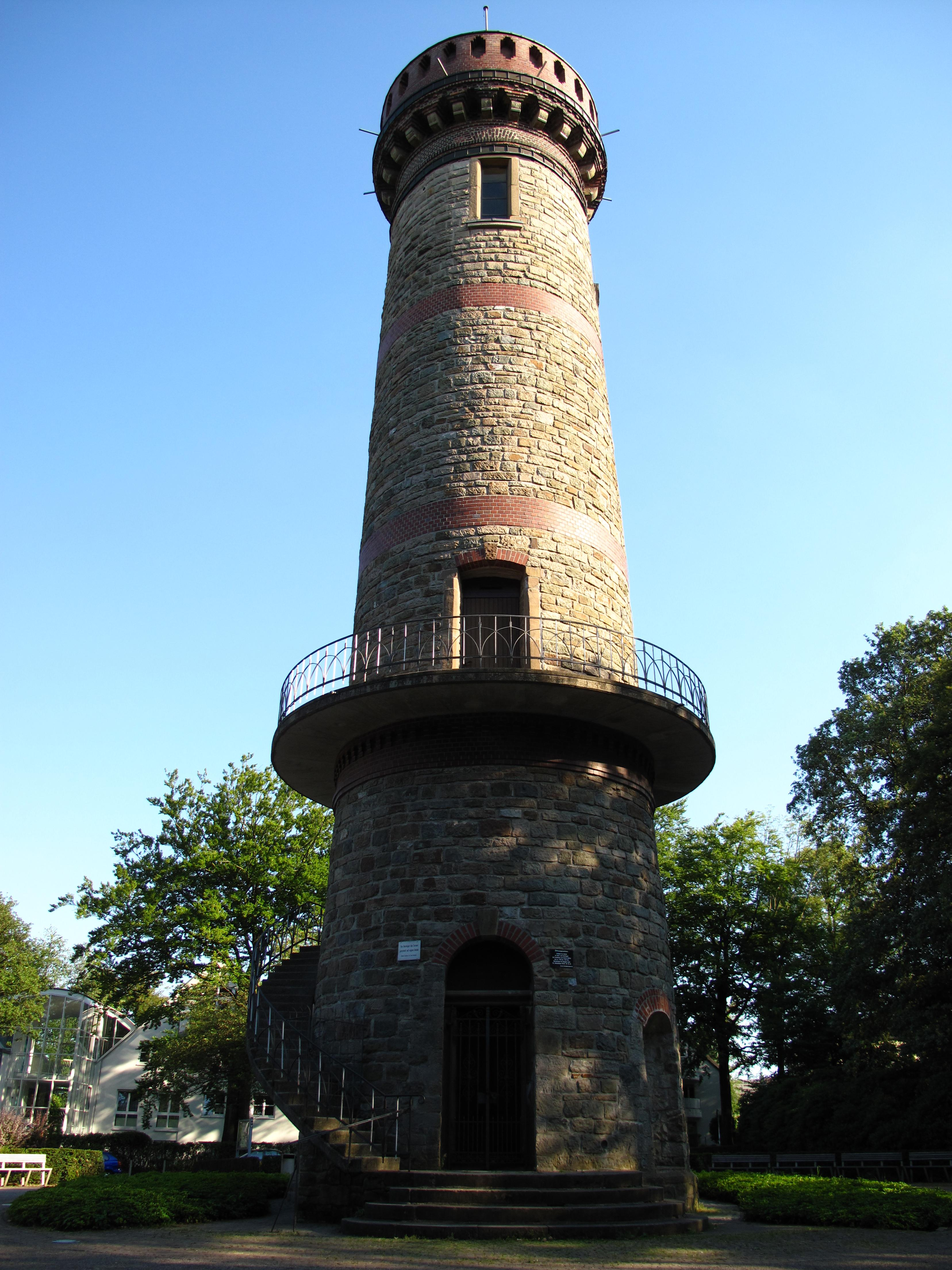 Toelleturm. Taken on the 18th of July, 2010 by Sara Pons.